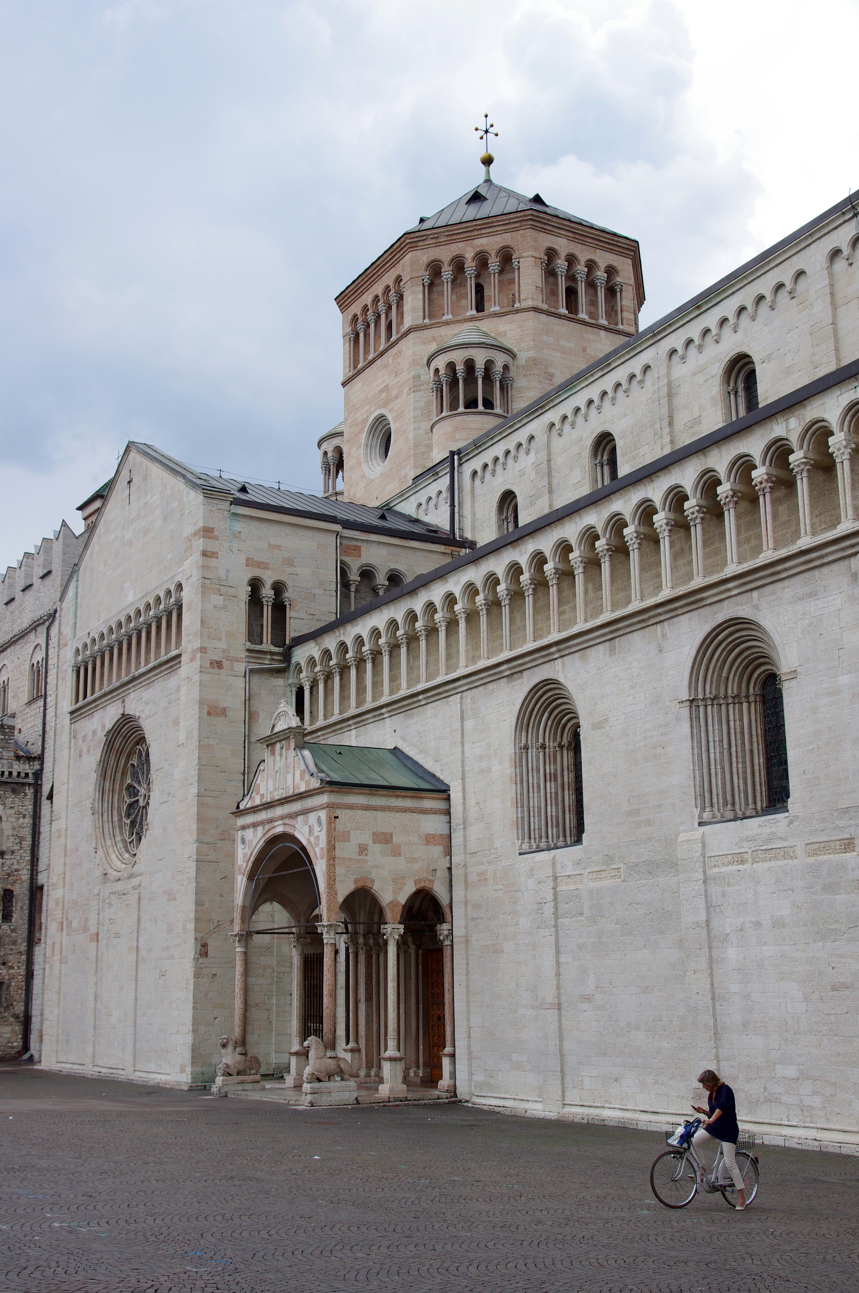 Cathedral of Saint Vigilius in Trento